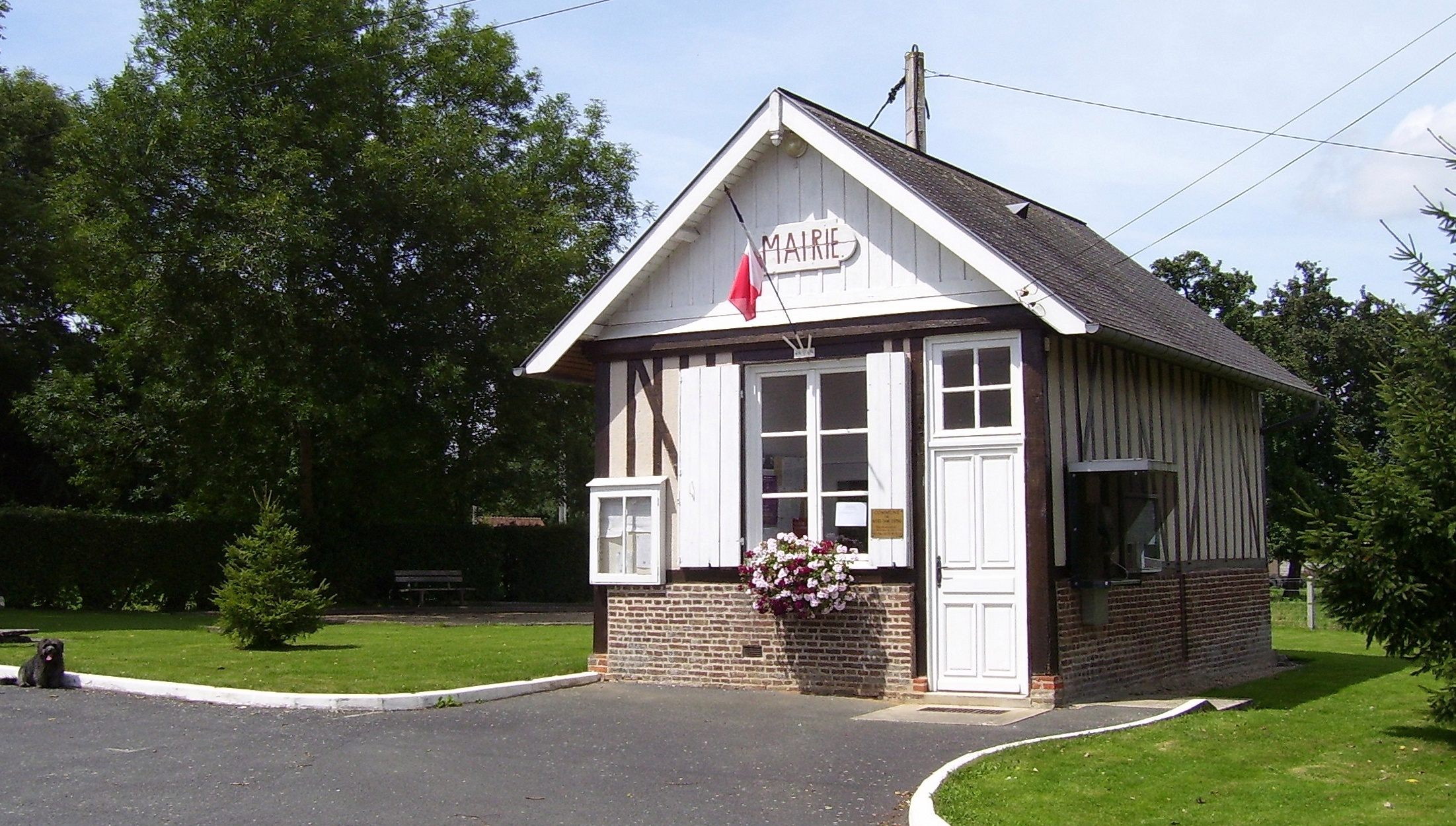 Town hall of Notre-Dame-d'Épine, departement Eure, Haute-Normandie, France.